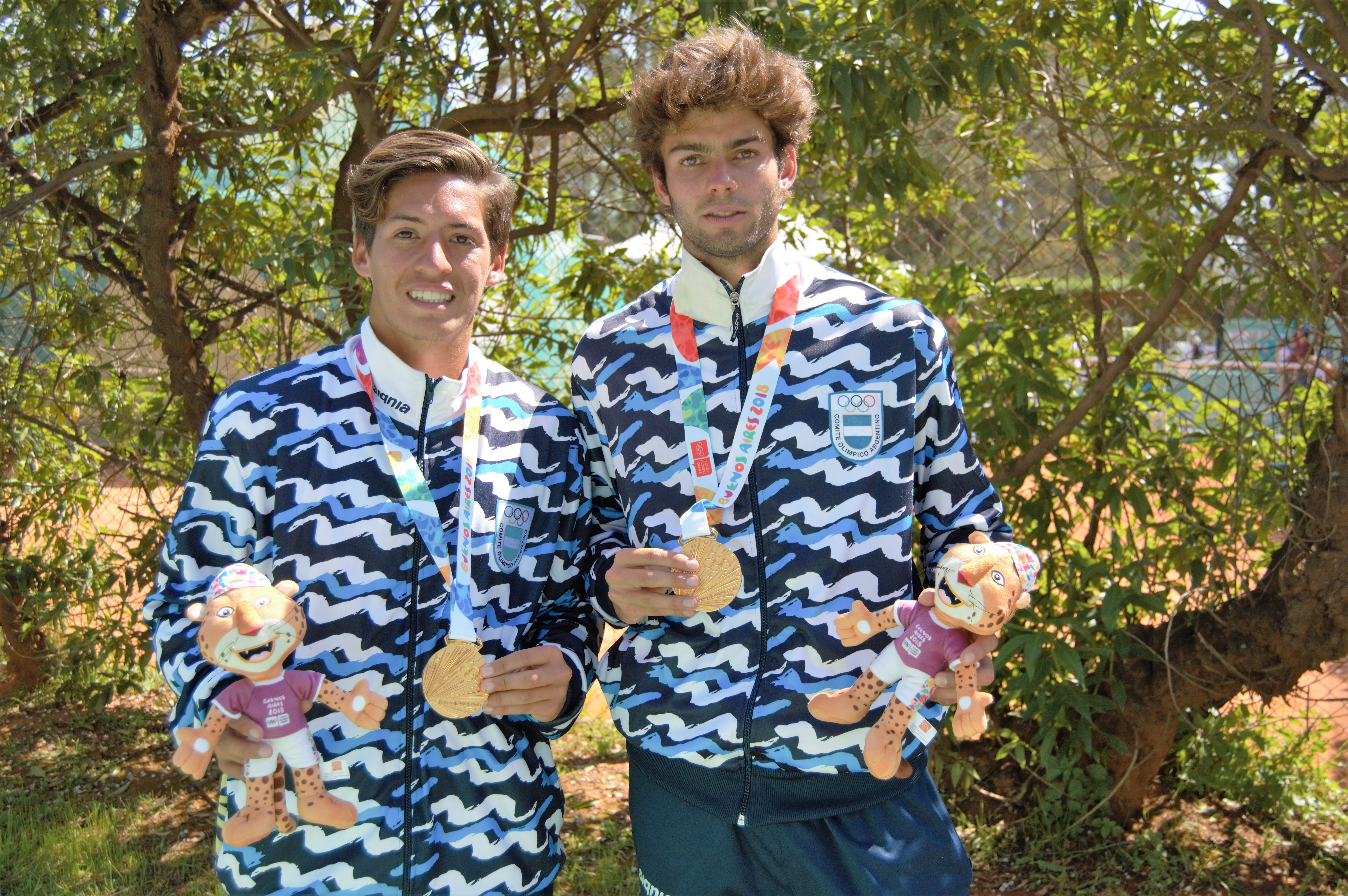 Sebastián Báez and Facundo Díaz Acosta with their gold medal after the boys doubles tennis final of the 2018 Summer Youth Olympics.